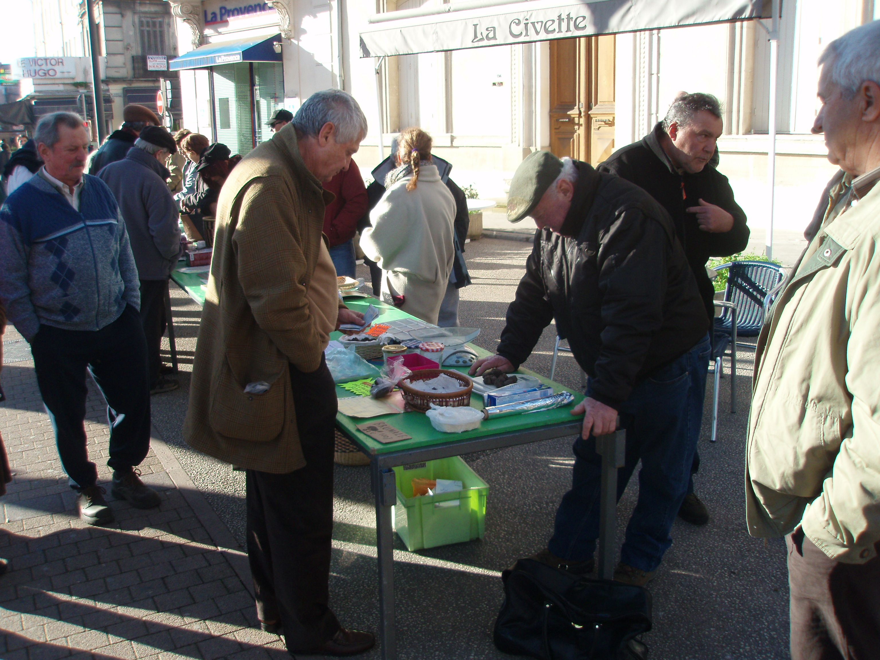 A photo of the official Truffle market in Carpentras town on Market Day. The truffle vendors set up on little tables with their truffles in front of them, and a little weighing scales beside. Each truffle vendor must have a license. Out of shot, behind and to the right, is a cafe where the vendors chat over a drink. This shot shows a vendor on the right with a small pile of truffles. The basket directly in front contains the truffles on offer. The weighing scales are beside the vendors right hand.